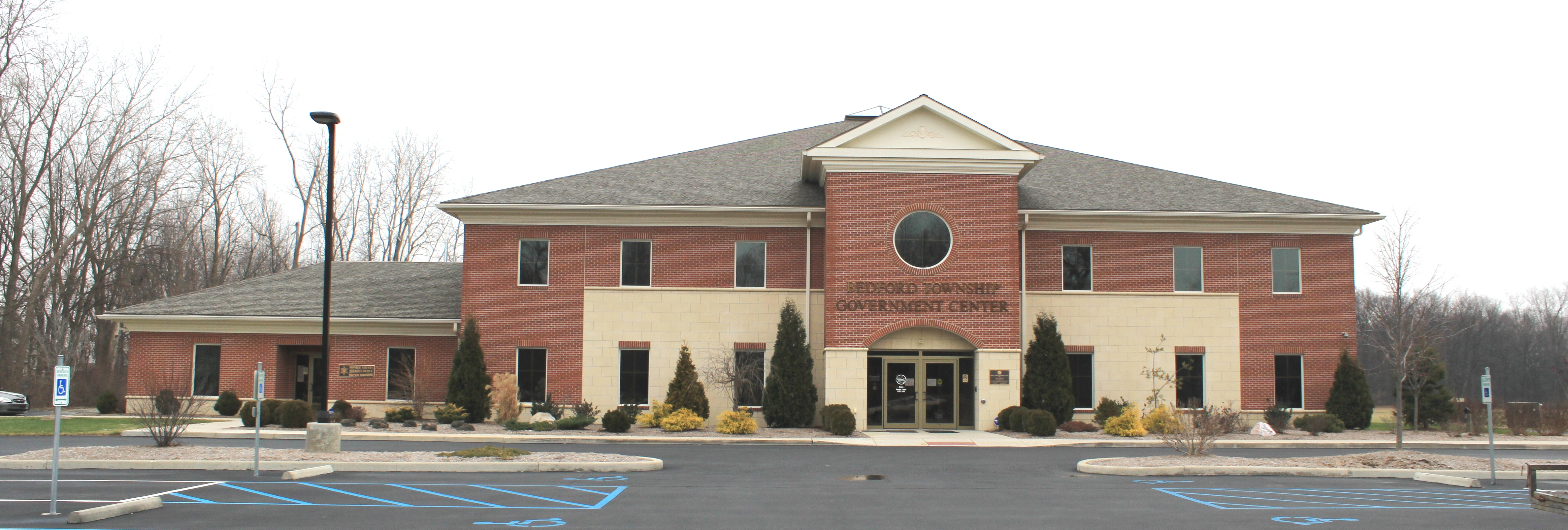 Bedford Township Government Center, 8100 Jackman Road, Temperance, Michigan.